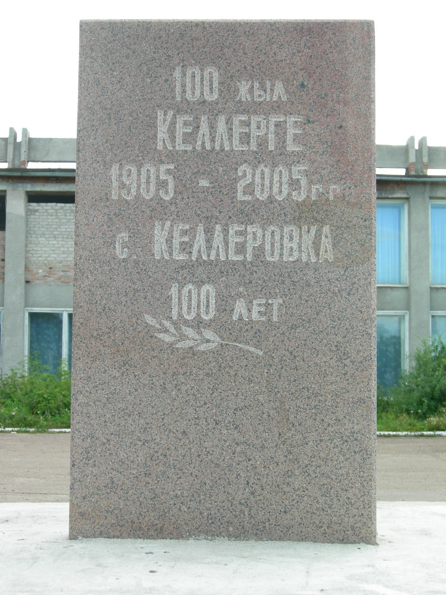 memorial to the 100 th anniversary of the village